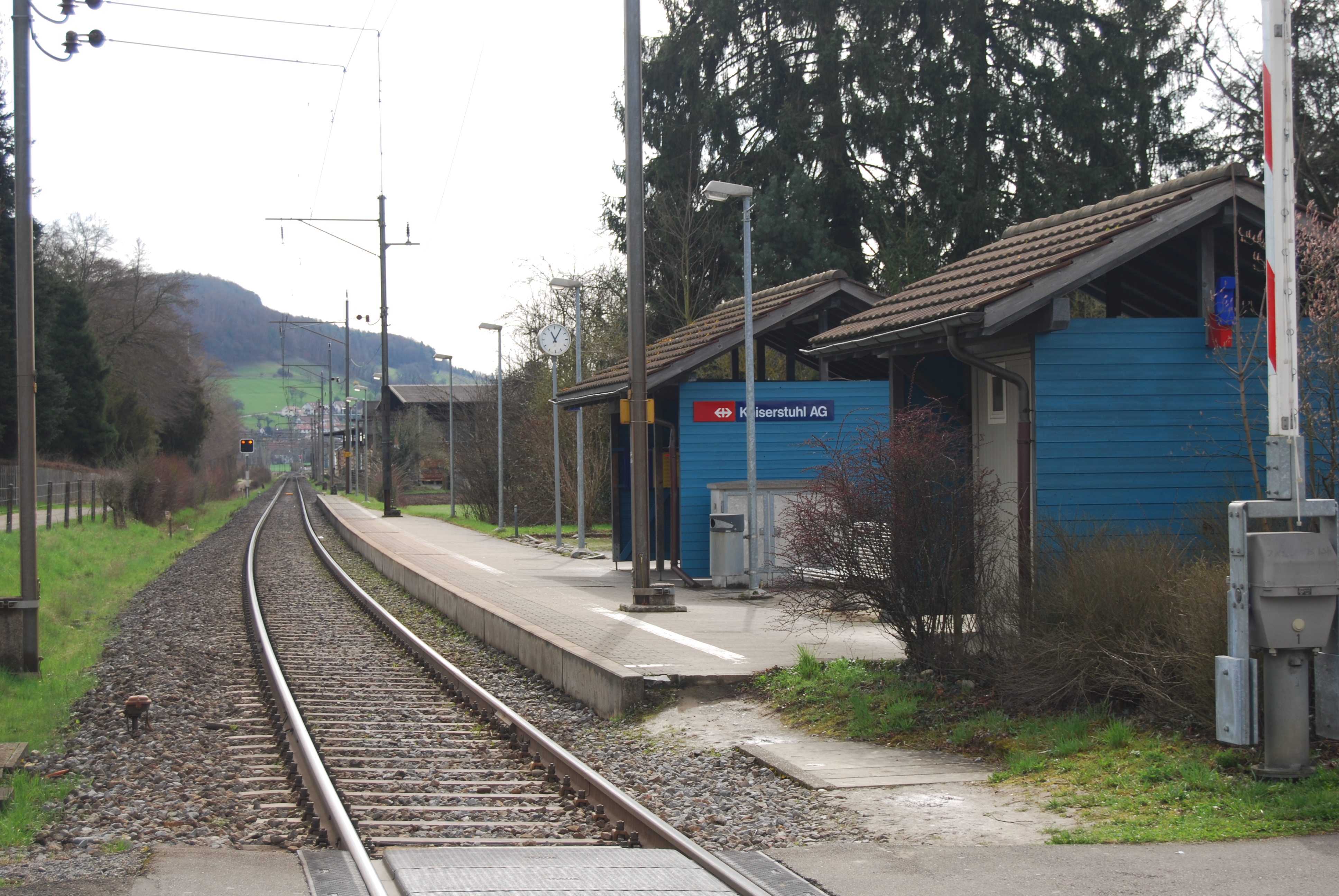 Train station of Kaiserstuhl, canton of Aargau, SwitzerlandEsperanto: Stacidomo de Kaiserstuhl, Kantono Argovio, Svislando